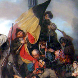 Men and women form a mound around a post in the streets of a city on the right of this painting. A tattered tricolour flag (of black, yellow, and red) is at the top, and beside this flag, a man stands with a paper in his hand. A man on his horse (on the left of the painting) is among the crowd at the base of the mound, and a dog campers just in front of his steed. The crowd bears swords, pikes, and guns affixed with bayonets. One of the women at the base of the mound cradles a baby, while two women and an old man grieve over a dead youth in their arms. The blue sky is overcast with grey smoke. DYK crop